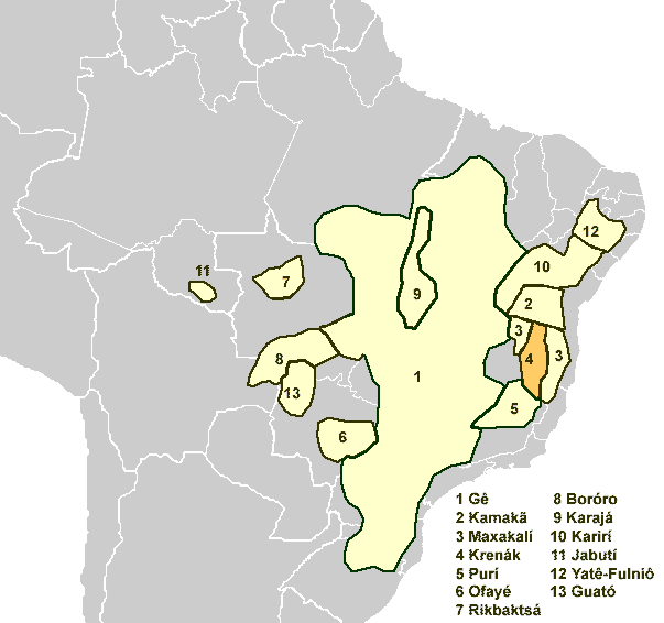 Krenák languages (orange) Source: Ribeiro, Eduardo & Van der Voort, Hein (2010) “Nimuendajú was right: The inclusion of the Jabuti language family in the Macro-Jê stock”, International Journal of American Linguistics, 76/4.